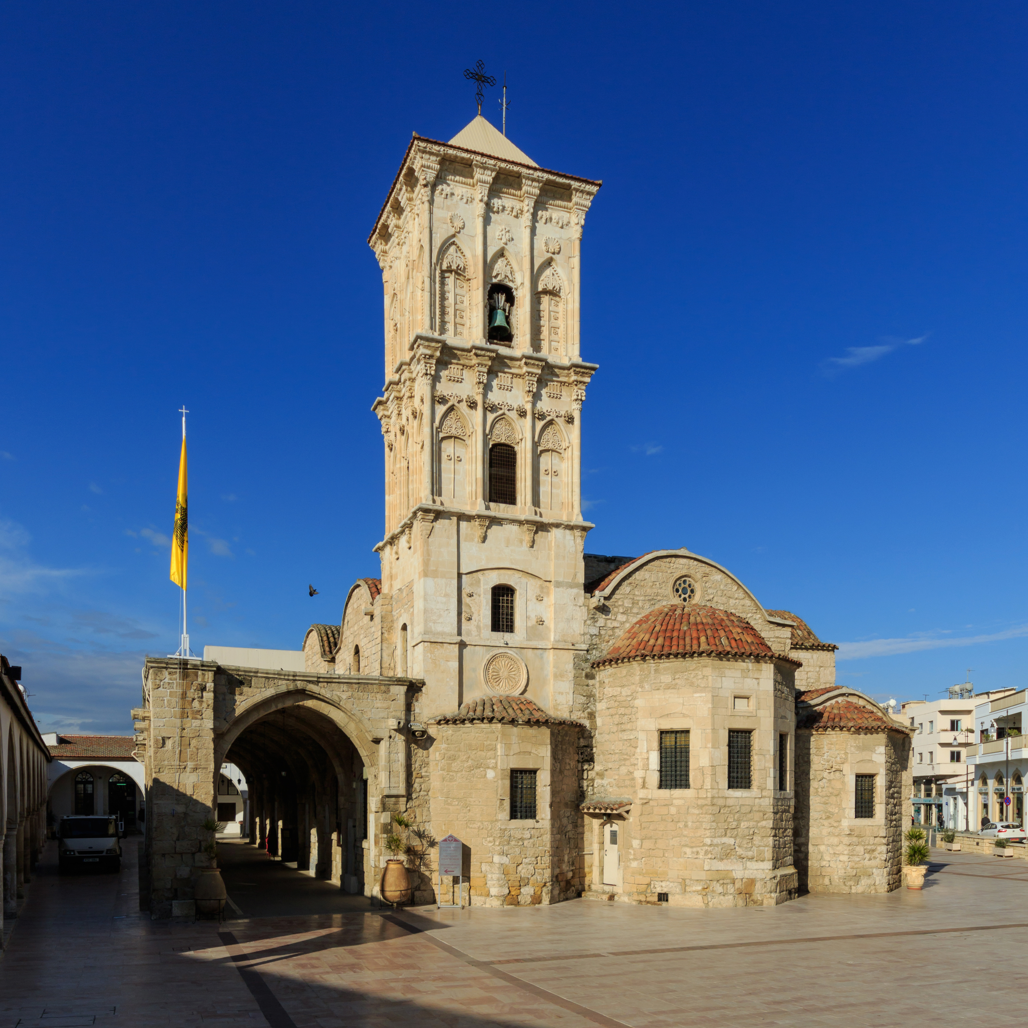 Church of St. Lazarus in Larnaca, Cyprus